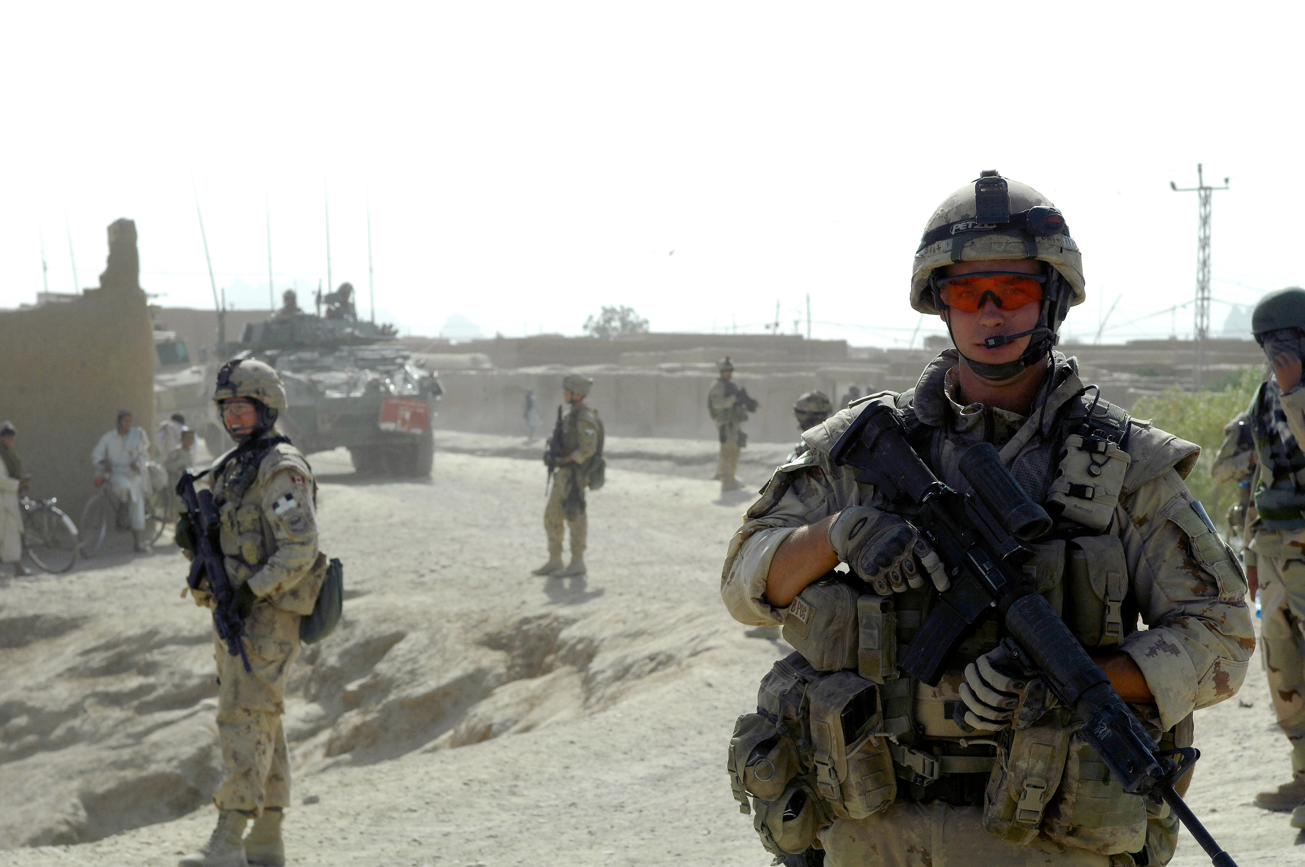 KANADAHAR, Afghanistan – Canadian Master Bombardier Clint Godsoe, Kandahar Provincial Reconstruction Team (PRT) patrols Kandahar August 26, 2008 on the way to deliver donated school supplies to a local school. The Kandahar PRT has worked on many construction projects such as schools and government facilities to assist the Afghan government improve the lives of residents (ISAF Photo by Staff Sgt. Jeffrey Duran).